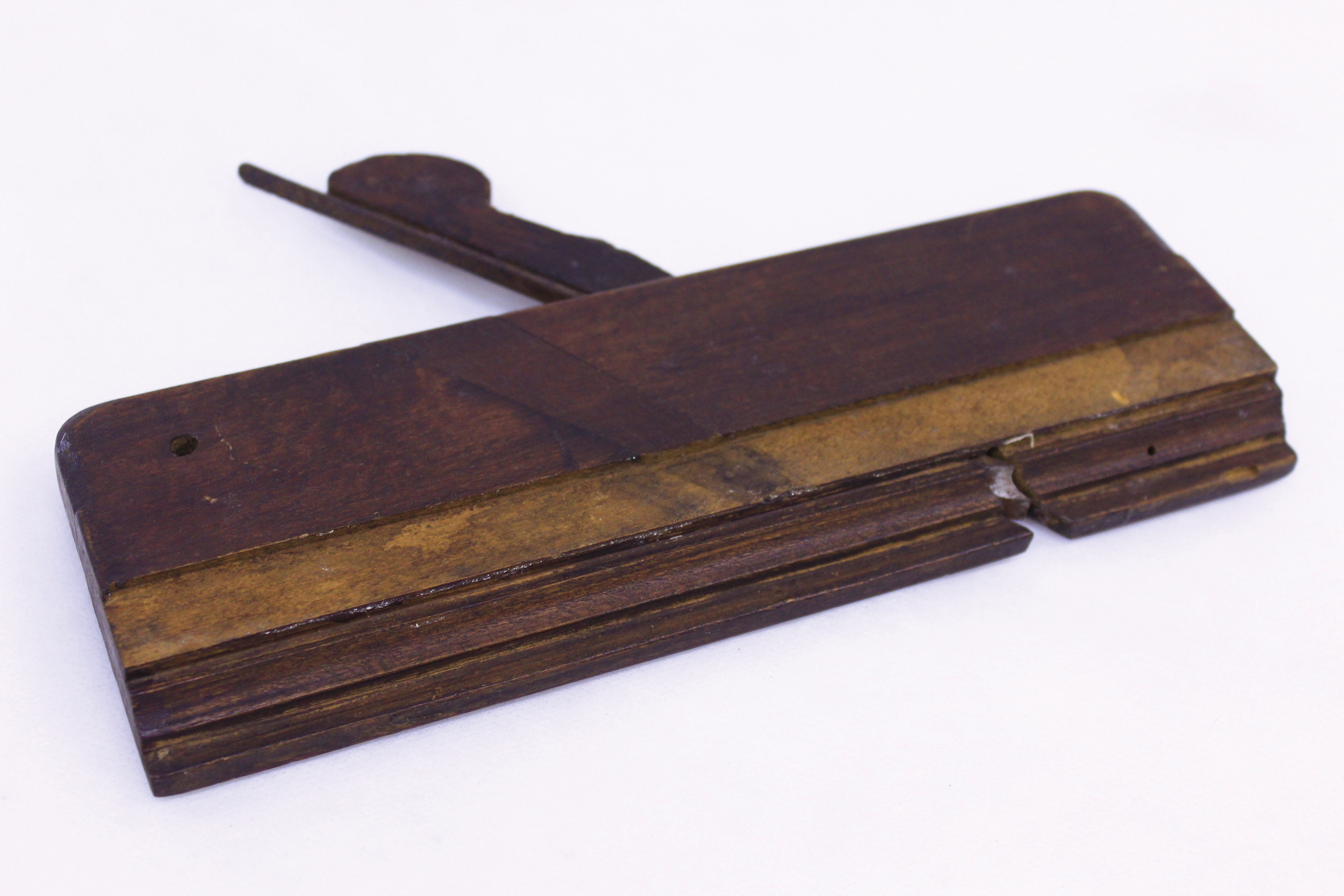 Planer. Wood. Italy, unknown date. Donor: Egydio Torrezani. Collection of the Immigration Museum of São Paulo. This planer is part of a set of carpentry tools, composed of planers, marking gauges and a trunk, which have belonged to his grandfather Luis (Luigi) Torrezan. Luis used to be a carpenter and brought his work instruments with him on board of the Cachar vessel. His trunk and he arrived at the port of Santos in February 1889.